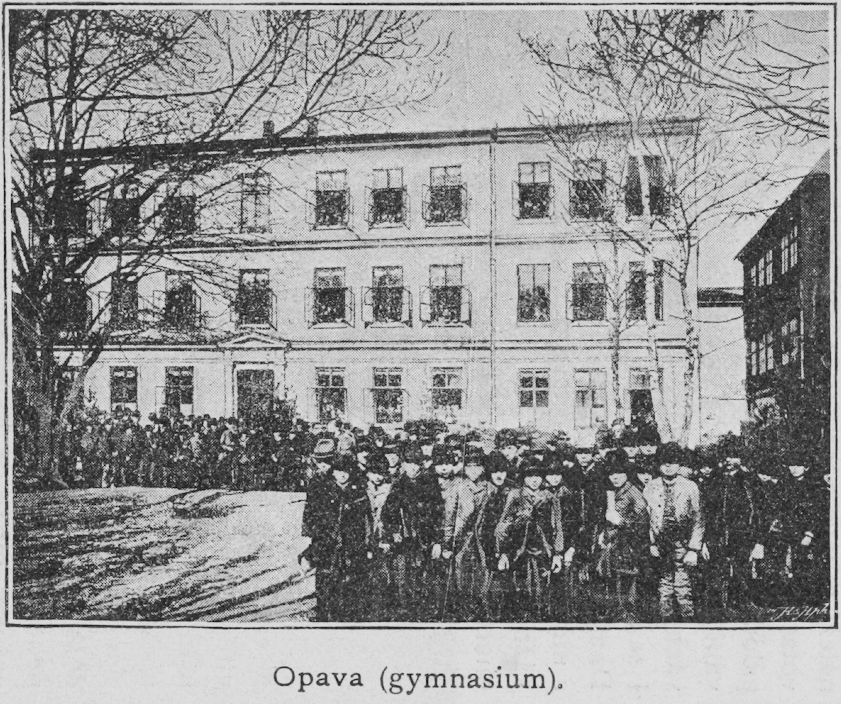 High school in Opava (then Austrian Silesia, now Czech Republic), operated by Ústřední matice školská. Cropped from File:Skoly UMS Bruner-Dvorak.png